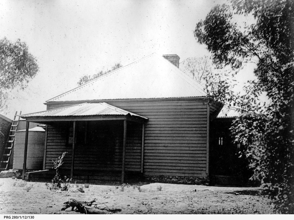 This was the Magazine Keeper’s residence, about ½ mile (0.8 km) inland., eastwards, from the North Arm Magazine. There was a generational ‘dynasty’ of Halseys who were keepers, assistant keepers and other employees at the North Arm magazine. State Library of South Australia PRG-280-1-12-130